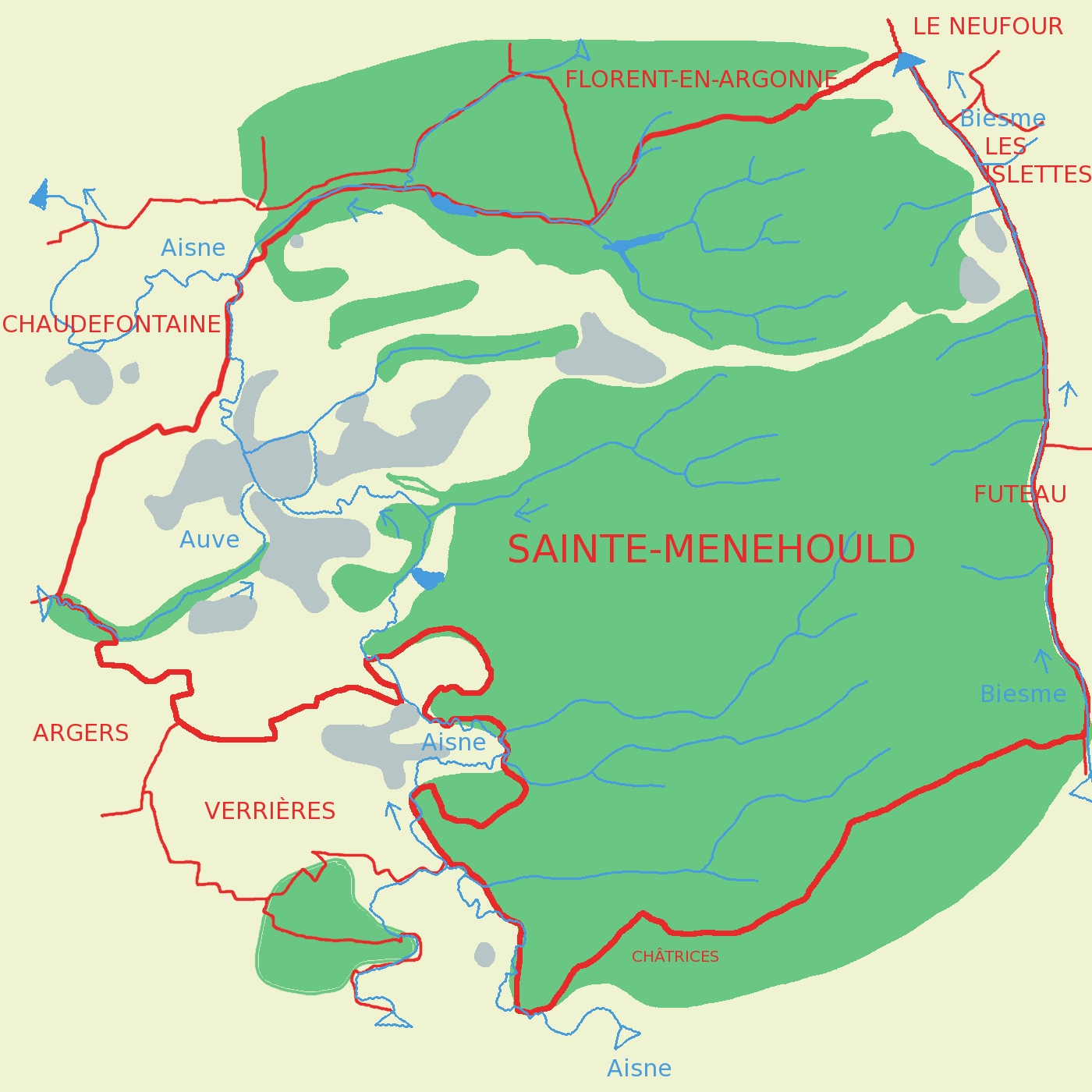 Map of rivers of Sainte-Menehould (51, France).